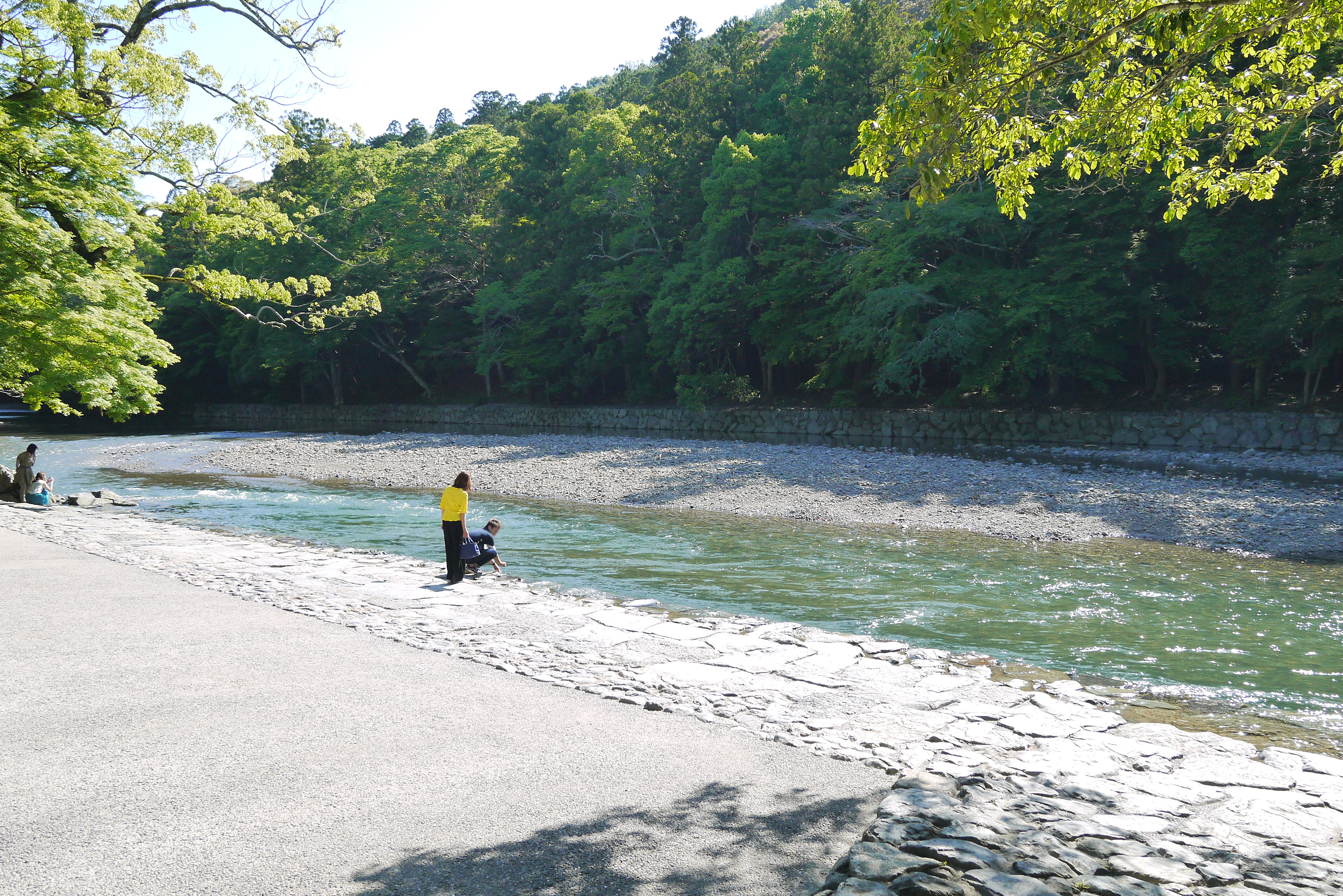 Naiku, Ise-jingu Grand Shrine, Ise, Mie prefecture, Japan Panasonic Lumix DMC-GF5